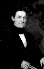 Cyrus Peirce (1790-1860), American educator and first president of what is now Framingham State University